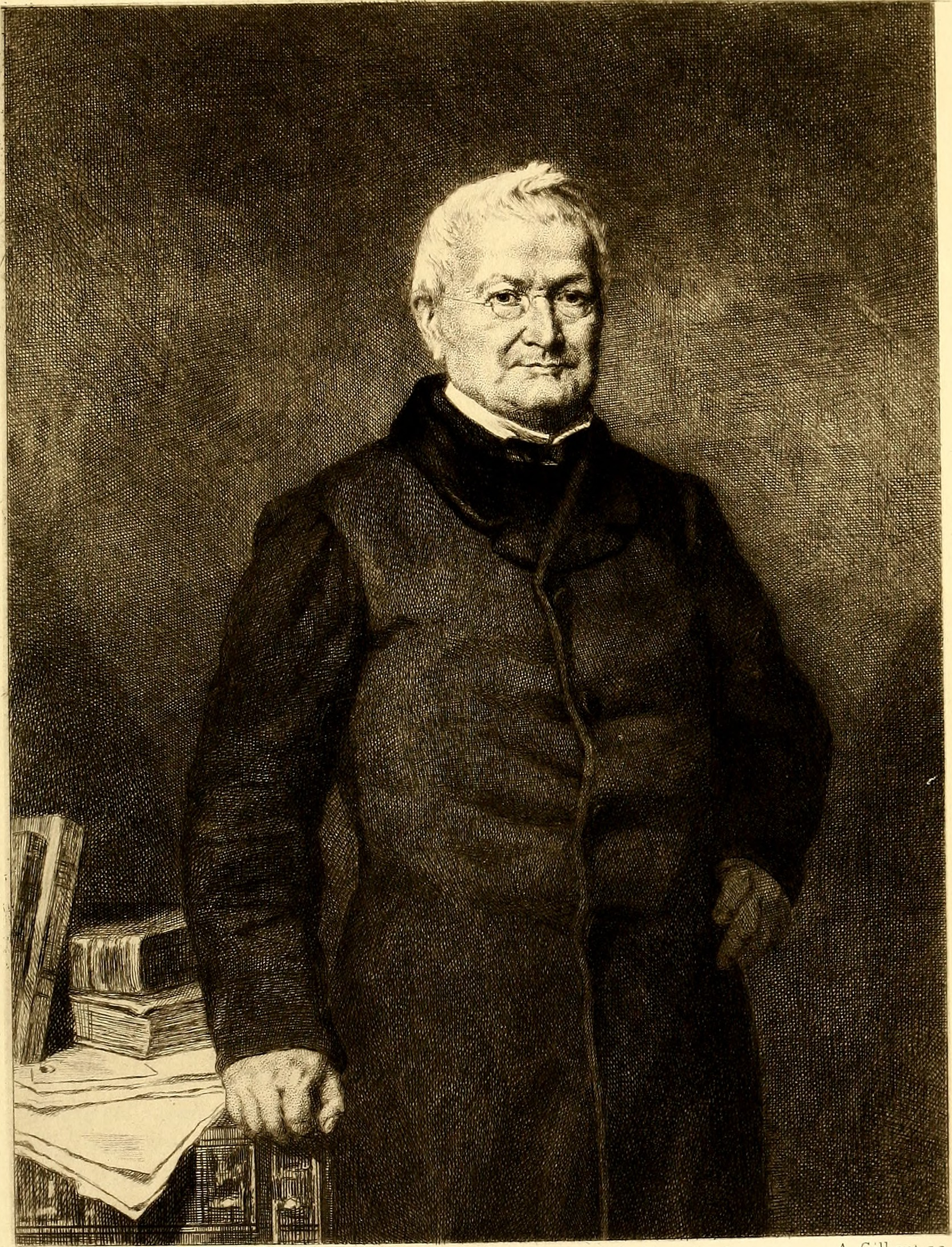 Title: Gazette des beaux-arts. Year: 1859 (1850s) Authors: eau forte de M. A. Gilbert, d’après le tableau, peint et exposé au Salon en 1872, de Mme Nélie Jacquemart (collection de Mme Drosne) p.534, Subjects: Adolphe Thiers (président de la République) Publisher: Gazette des beaux-arts, juillet 1897